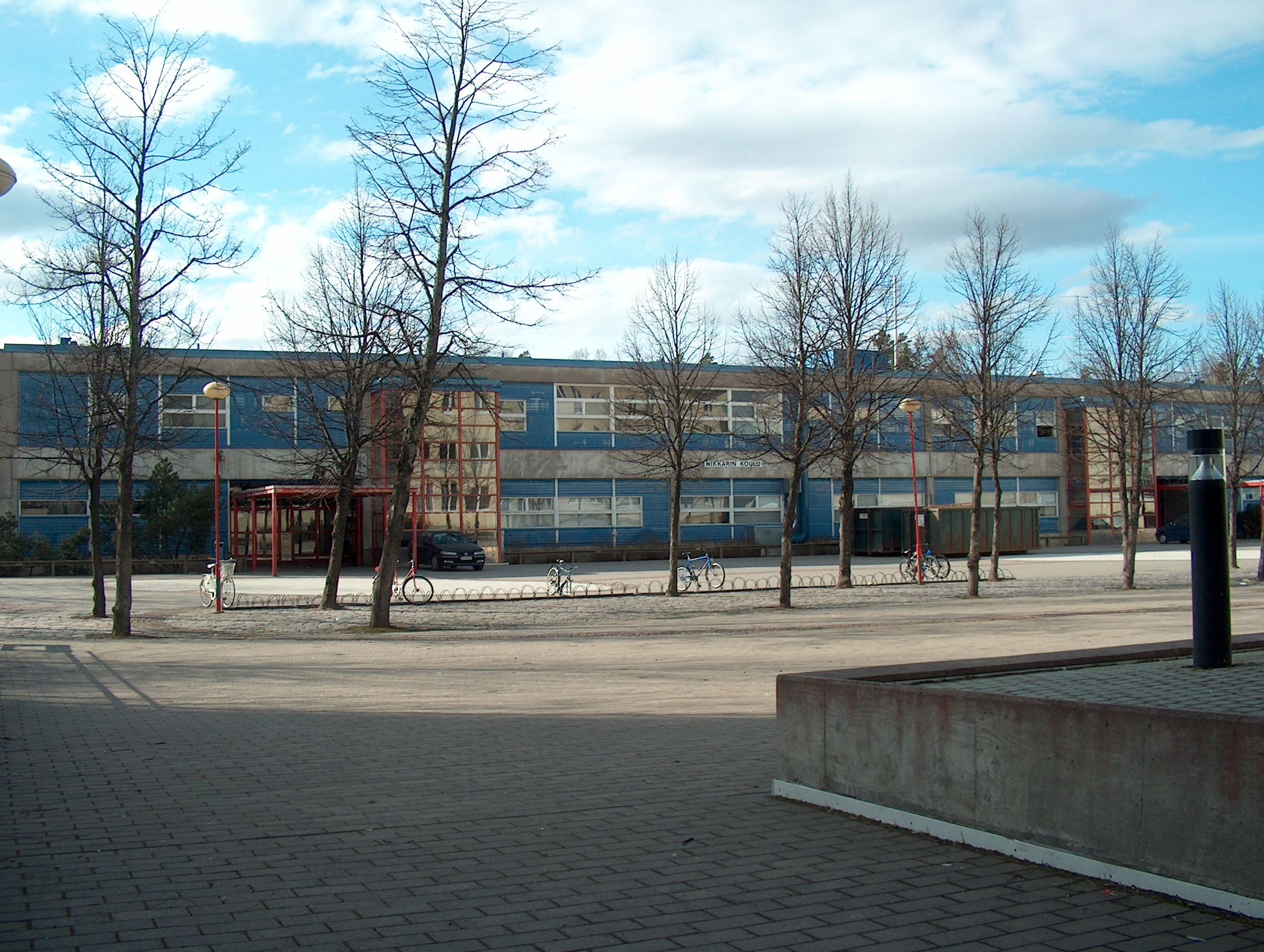 The Nikkari School in Kerava, Finland, was built in 1957.